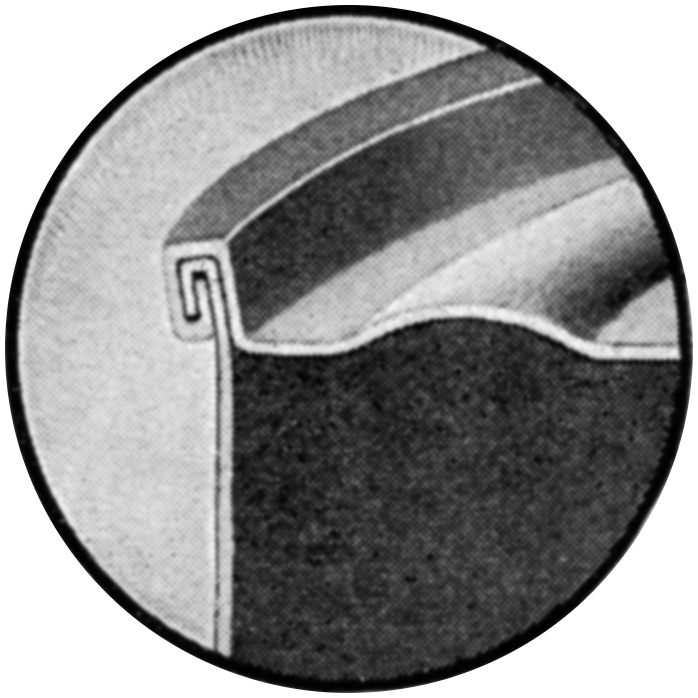 Cutaway diagram of the "solderless seam" used by H. J. Heinz's canning process in 1909 to attach the can ends to the cylindrical body. From the materials for the Alaska-Yukon-Pacific Exposition of 1909, held in Seattle.